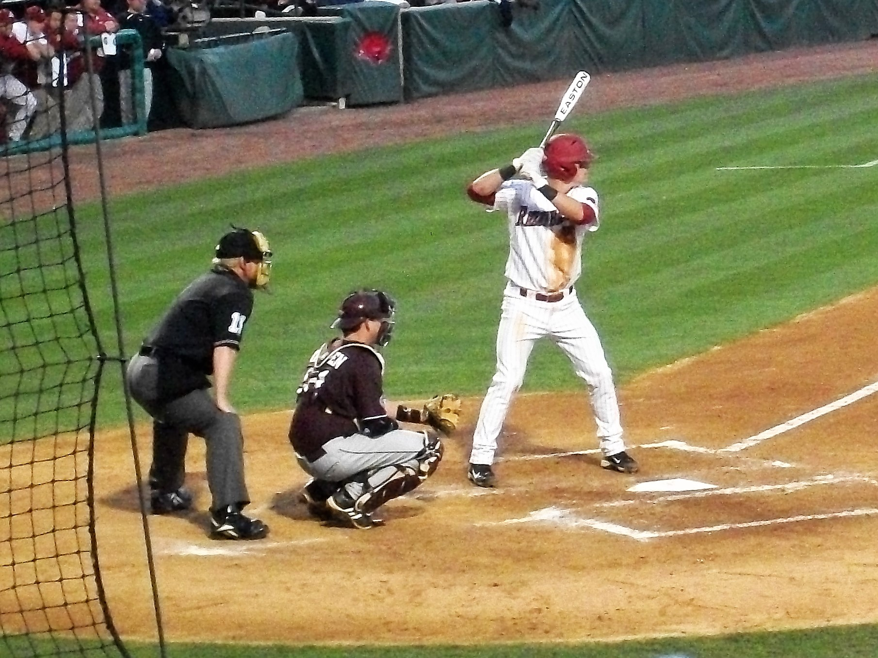 Mississippi State baseball player Wes Thigpen plays catcher at Baum Stadium as Matt Reynolds bats for the Razorbacks